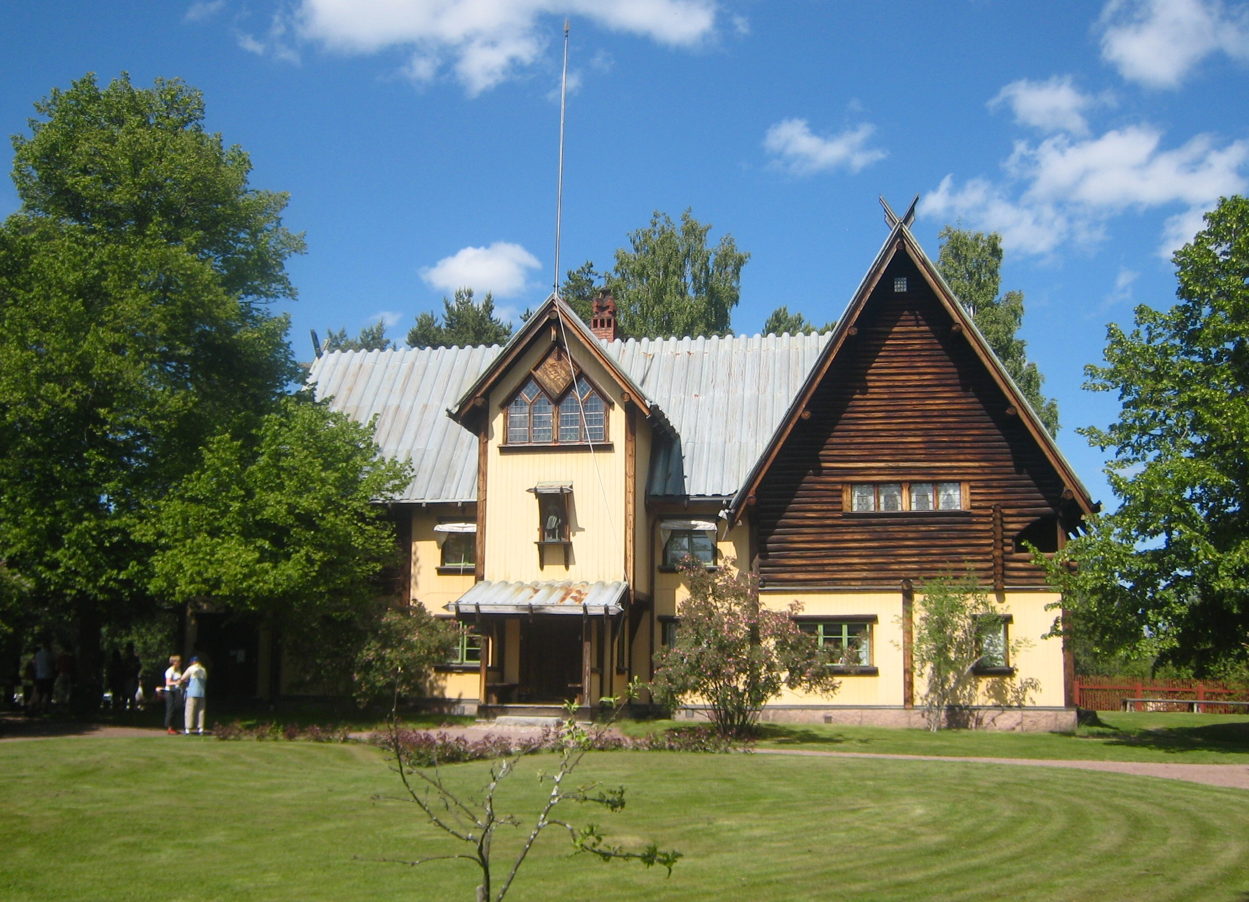 Zorngården i Mora.